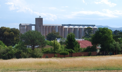 Grain Elevator in Tweespruit, Free State, South Africa